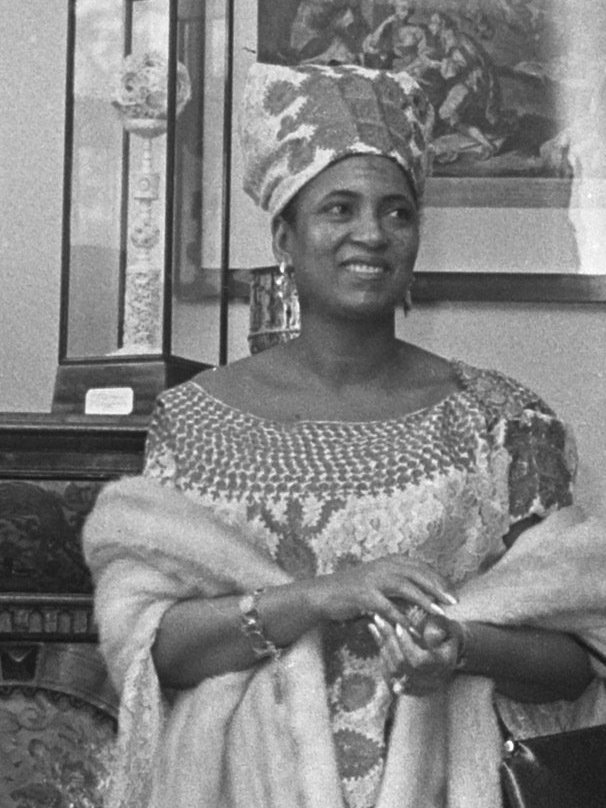 Aichatou Diori, wife of Hamani Diori.